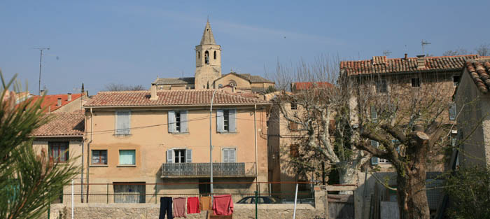 Details of the village of Mazan in Vaucluse, France